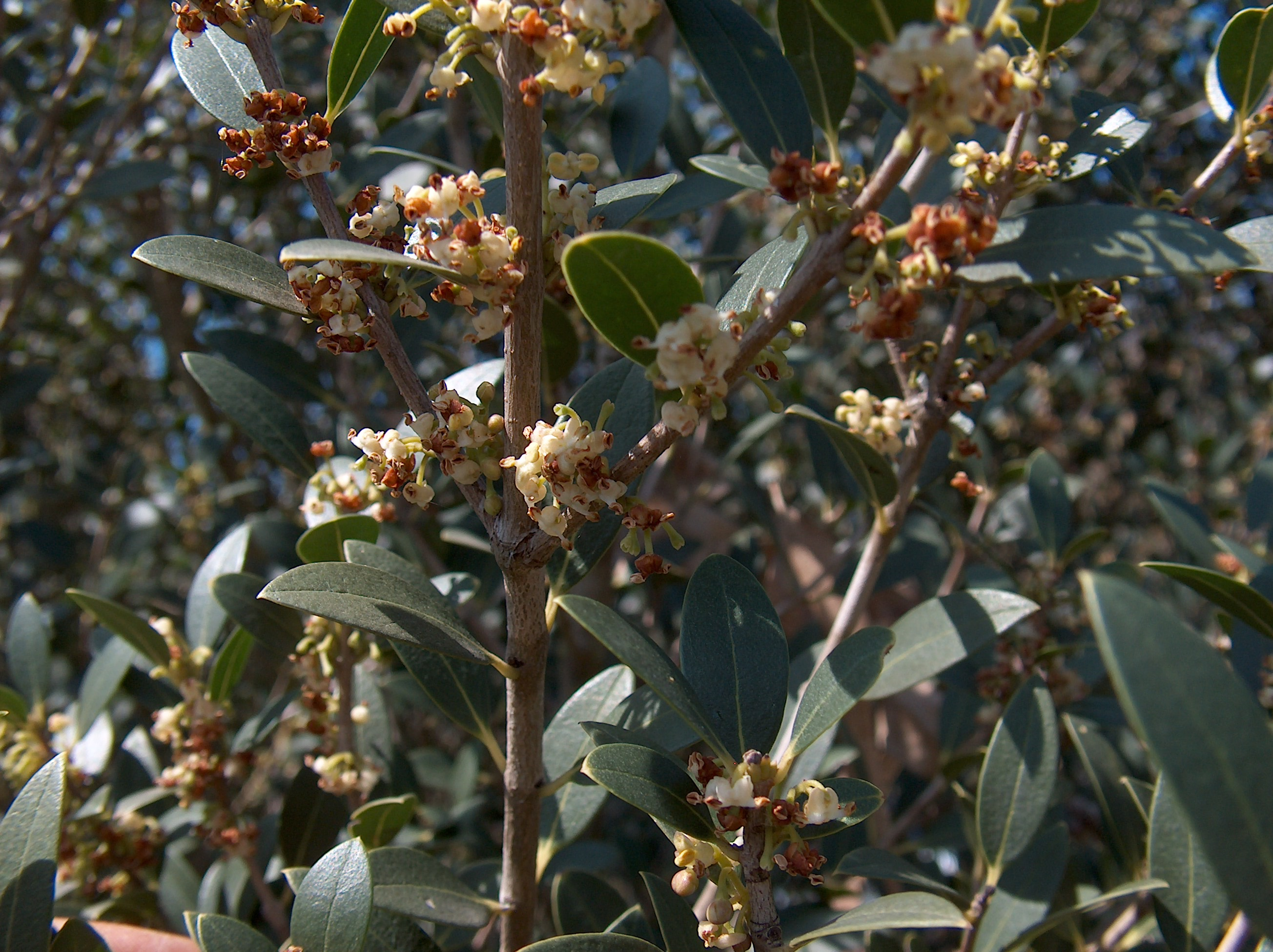 Leaves and flowers of Phillyrea latifolia (Place: Professional Institute of Agriculture and Environment "Cettolini" Villacidro, Sardinia, Italy)